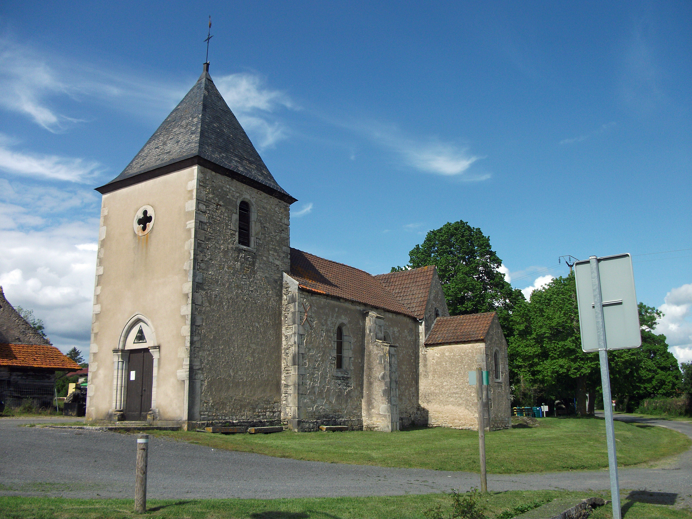 Church of Saint-Priest-d'Andelot, Allier, Auvergne-Rhône-Alpes, France [10855]